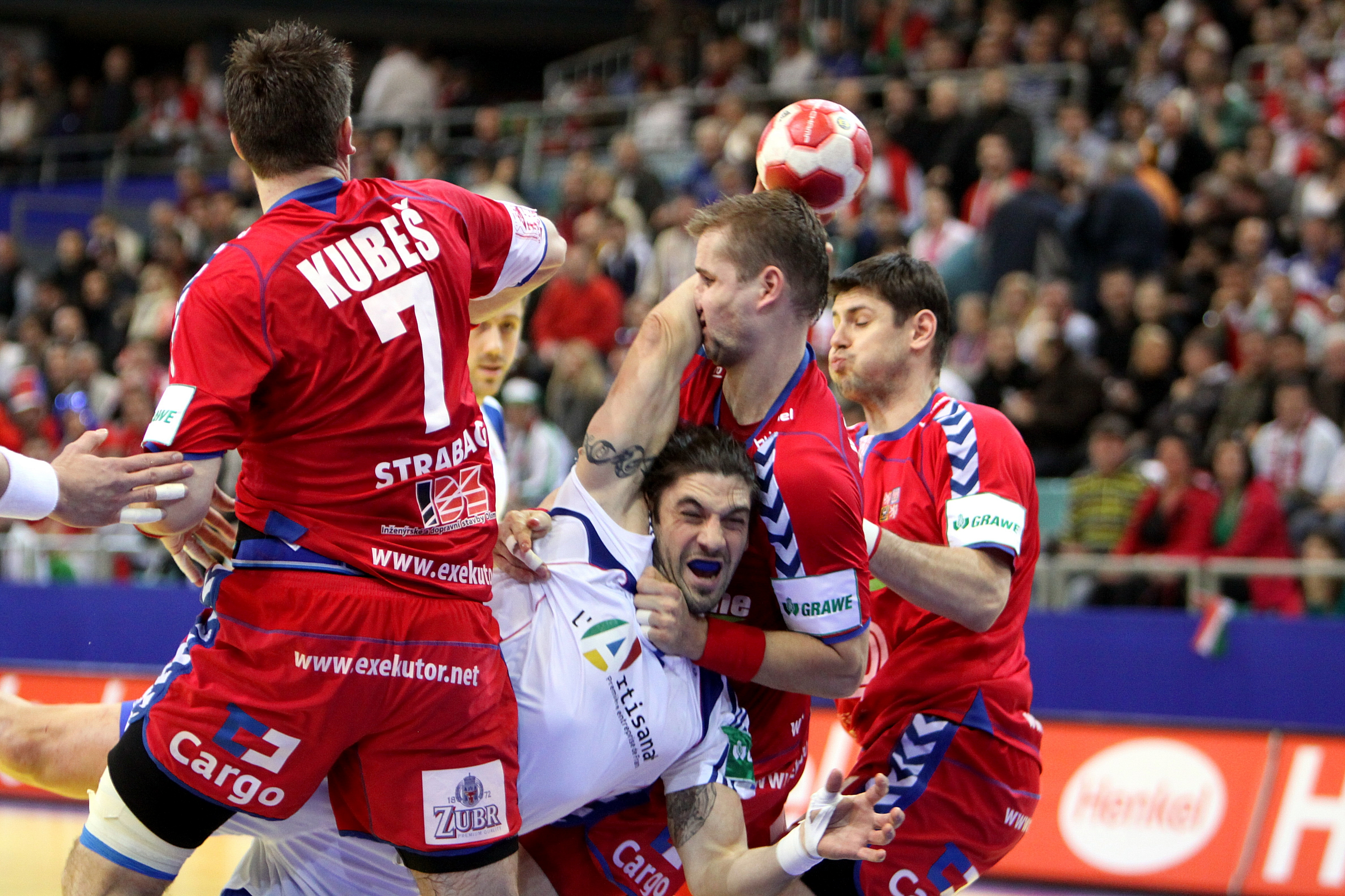 2010 European Men's Handball Championship Group D: Czech Republic vs. France 20:21 — Bertrand Gille (France national handball team) is blocked by three Czech Republic Players.